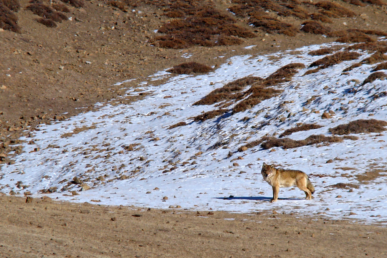 A Tibetan wolf Canis lupus chanko in Spiti Valley, Himachal Pradesh